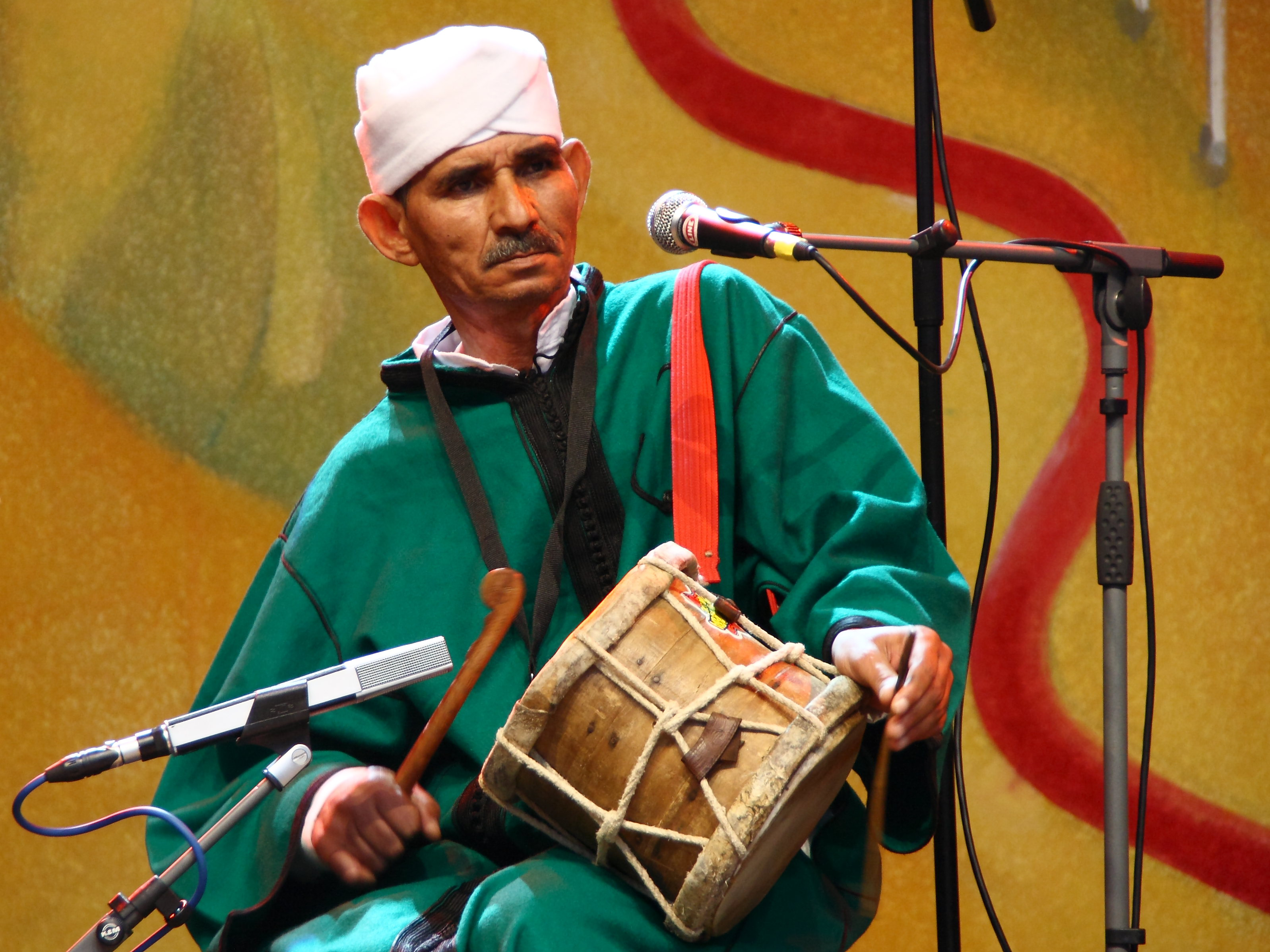 The Master Musicians of Jajouka at TFF Rudolstadt 2011.